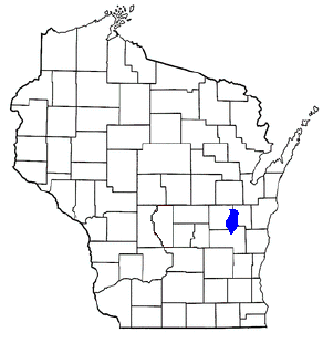 User:Royalbroil created this image by using Bumm13's image Image:WIMap-doton-Brothertown.png as a base map, deleting the red dot on Brothertown, and adding an approximation of Lake Winnebago from a collection of maps. Bumm13's image was adapted from Wikipedia's WI county maps.